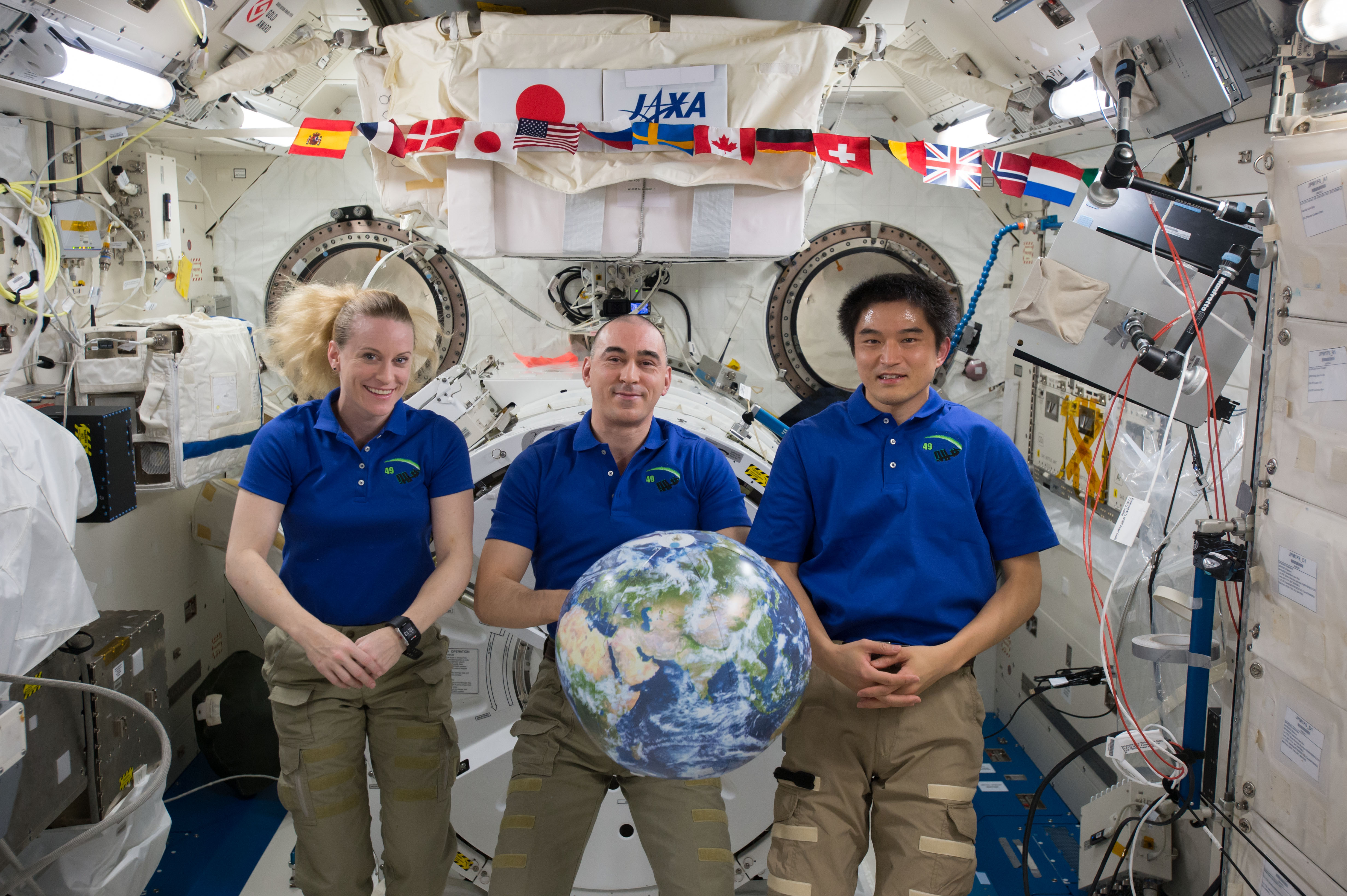 Expedition 49 crewmembers Kate Rubins of NASA (left), Anatoly Ivanishin of Roscosmos (middle) and Takuya Onishi of JAXA (right) pose inside of the Japanese Experiment Module aboard the International Space Station. The multinational crew arrived at the station July 9, 2016 and are scheduled to return home Oct. 30, 2016.